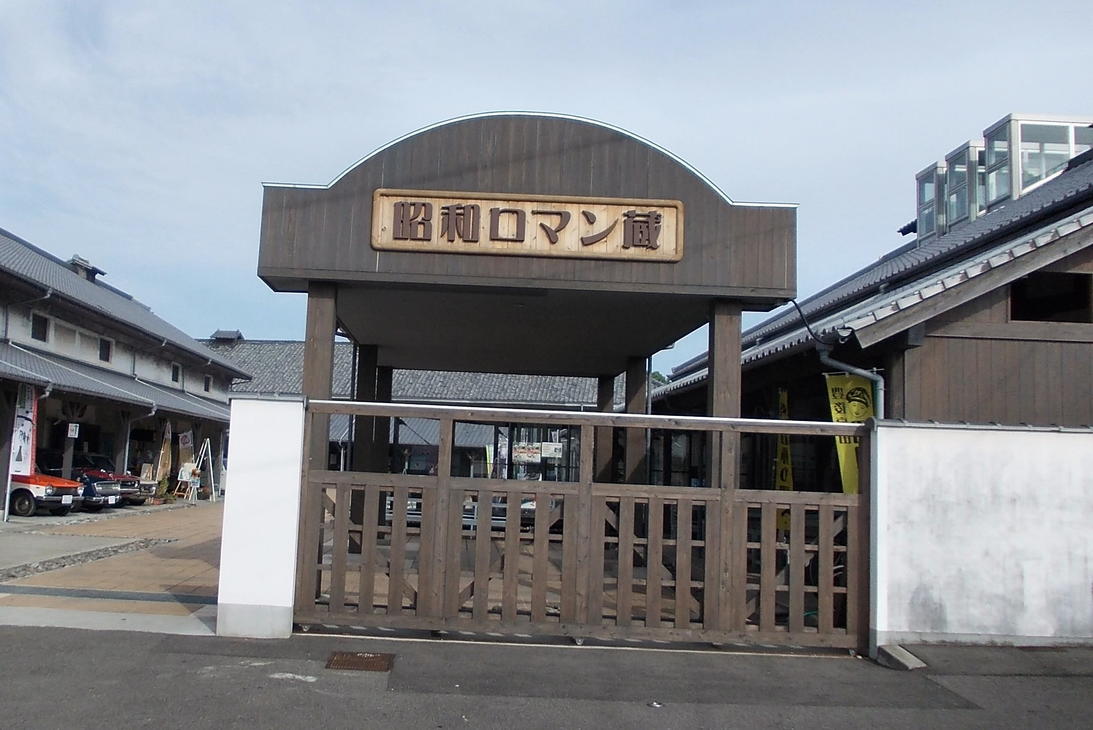 Showa no Machi, Bungotakada, Oita, Japan